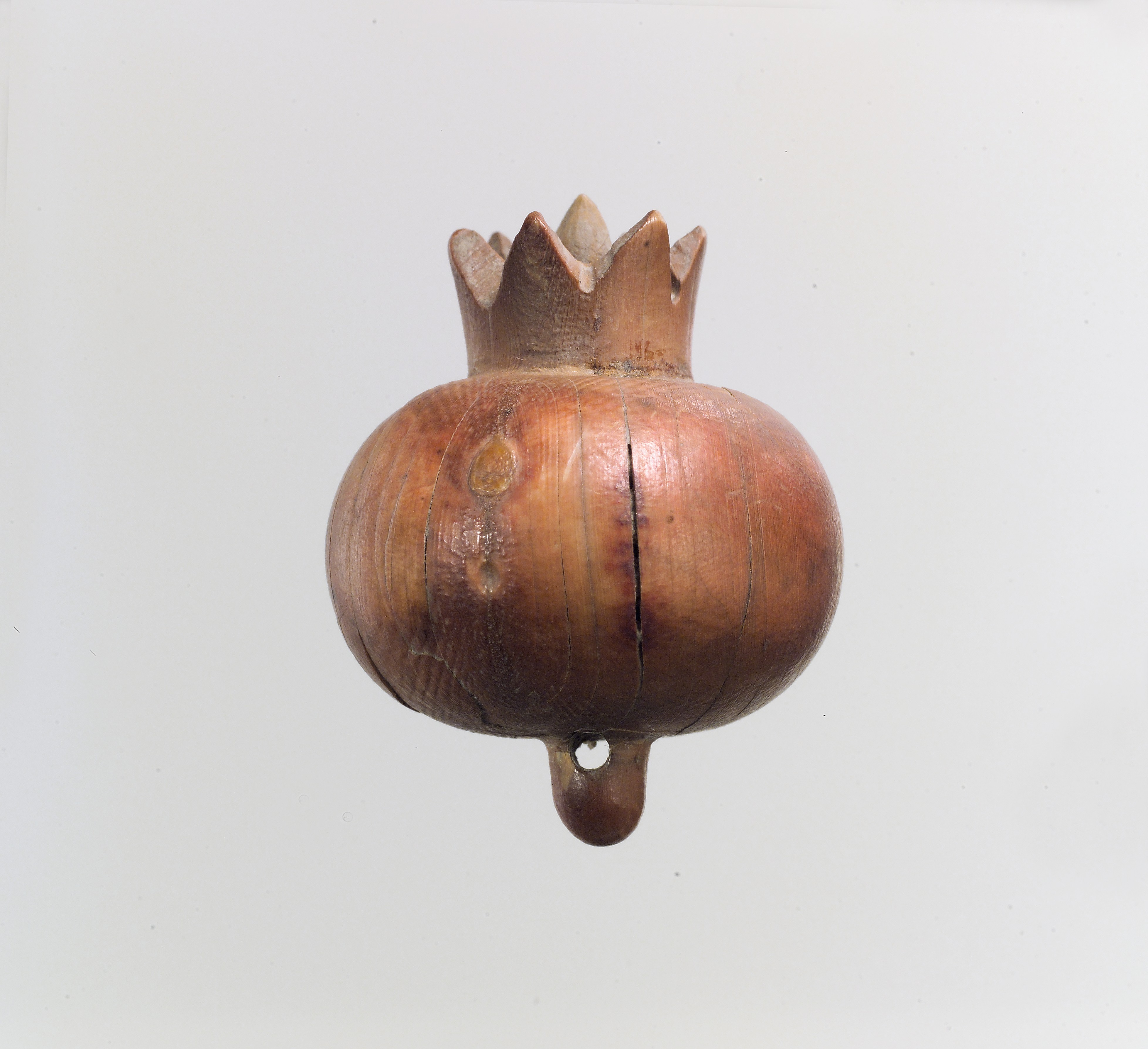 Assyrian; Sculpture; Ivory/Bone-Sculpture